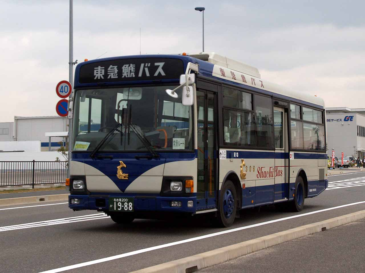 example of Tokyu Shachi Bus (Route bus type) Model: Hino Rainbow II (PDG-KR234J2) License plate: ACN200 KA1988（名古屋200か1988） Place: Chubu International Airport, Tokoname city, Aichi Japan